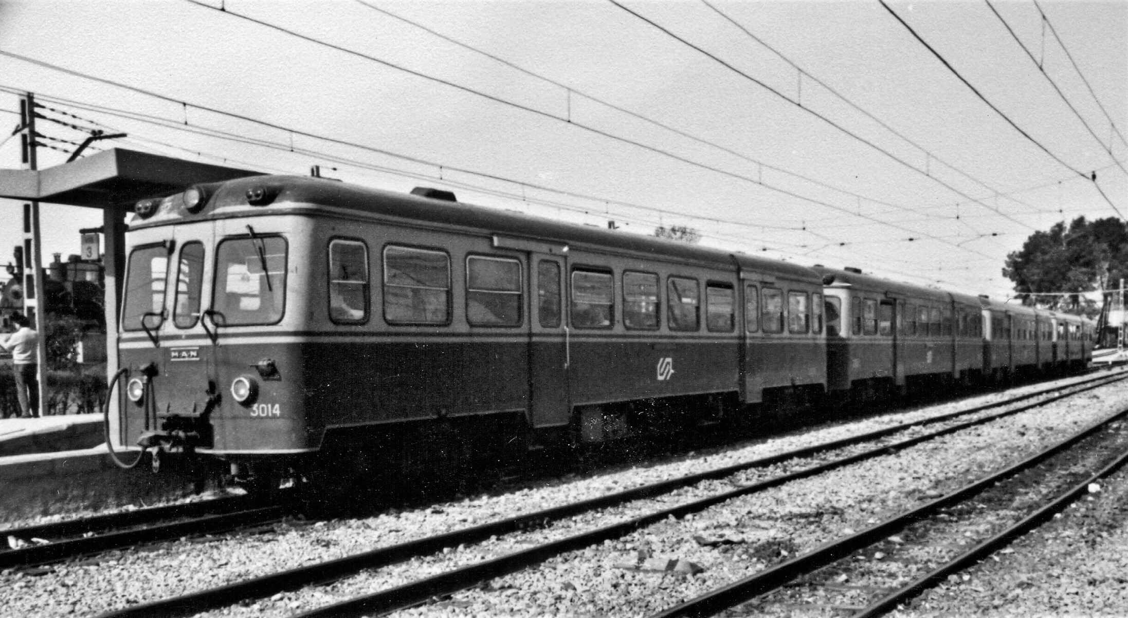 A train from Barcelona to Igualada pauses in Martorell Enllaç. It consists of four Class 3000 diesel railcars of FGC.